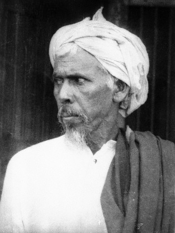 61-year old Ali Musliyar, the Indian rebel leader of the Moplah Revolt (1921), shortly before his execution in Coimbatore. Musliyar, one of the prominent leaders of the Uprising, was born in 1861 in Ernad, Malabar. He worked for almost 7 years in the holy city of Mecca, Arabia. He surrendered to the Government forces in September 1921 and was later executed. This image falls into the public domain as it was taken in India prior to 1 January 1951, and was not published in India after that date. It is in public domain in the United States as well as it was taken prior to 1 January 1923.